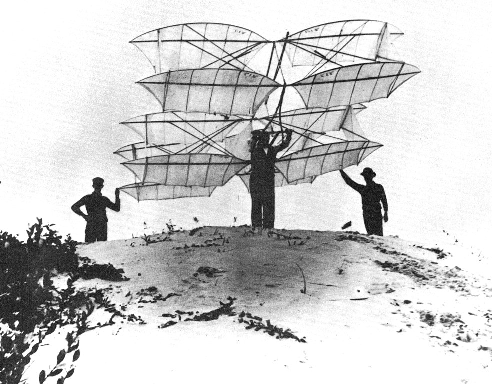 Photograph of Octave Chanute's assistants preparing to launch a twelve-winged glider of Chanute's own design, in the early summer of 1896 at Miller Beach, in present-day Gary, Indiana.